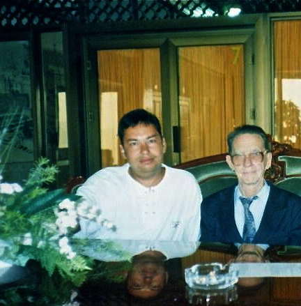 AYDAR AKHATOV & ALI AKISH (90s of last century)